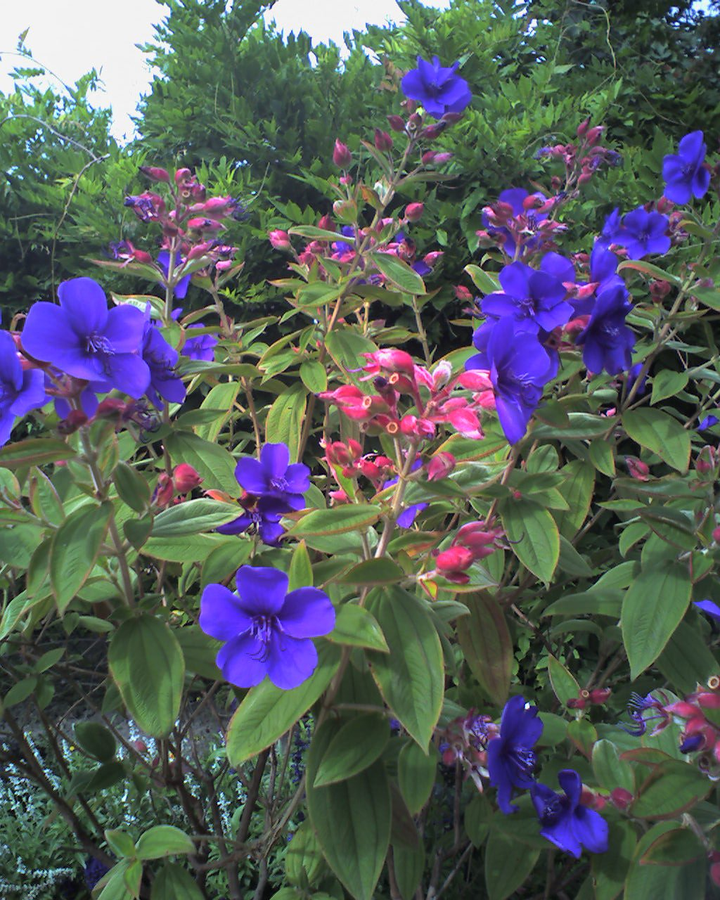 Tibouchina urvilleana found at the botanical garden of Dresden University of Technology.